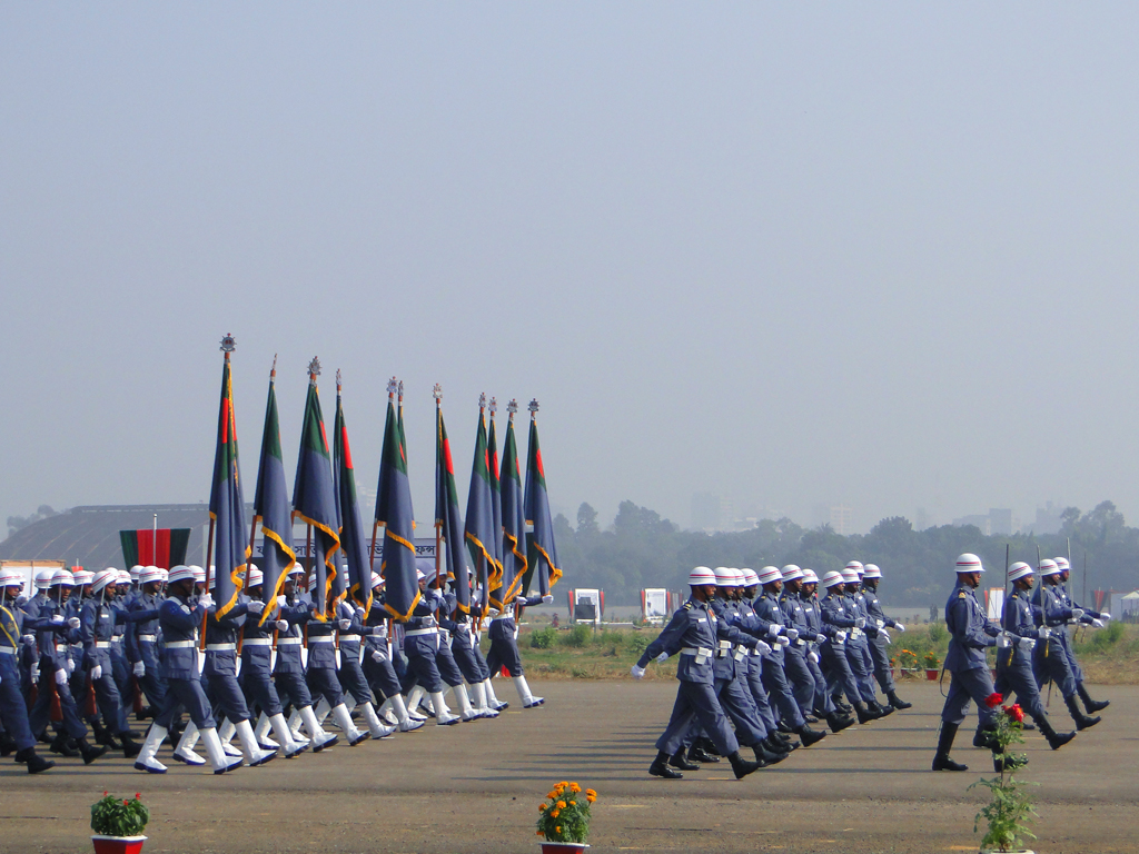 The Bangladeshi Coast Guard parading on Victory Day.